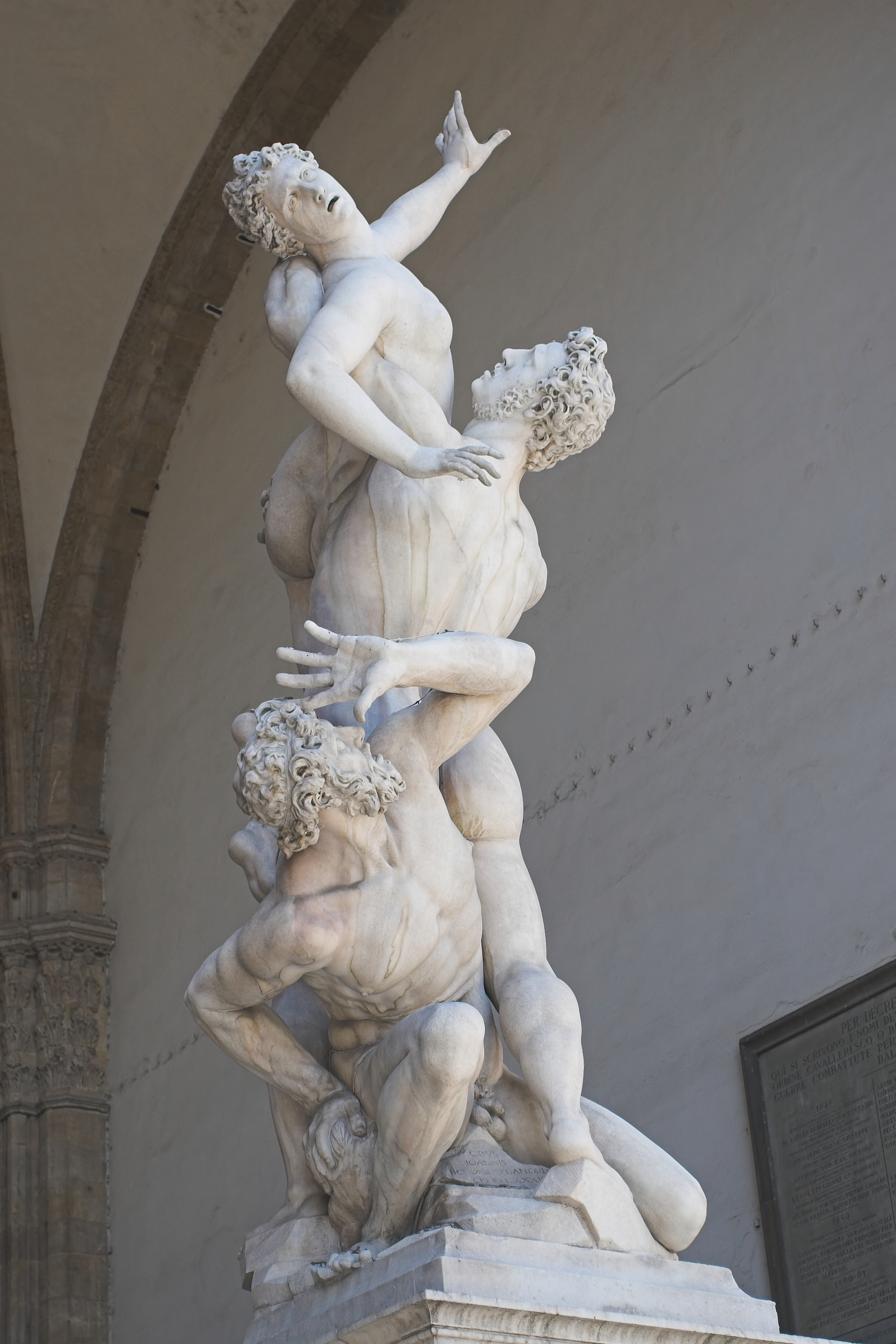 The rape of the Sabine Women by Giambologna. Photo by Thermos.